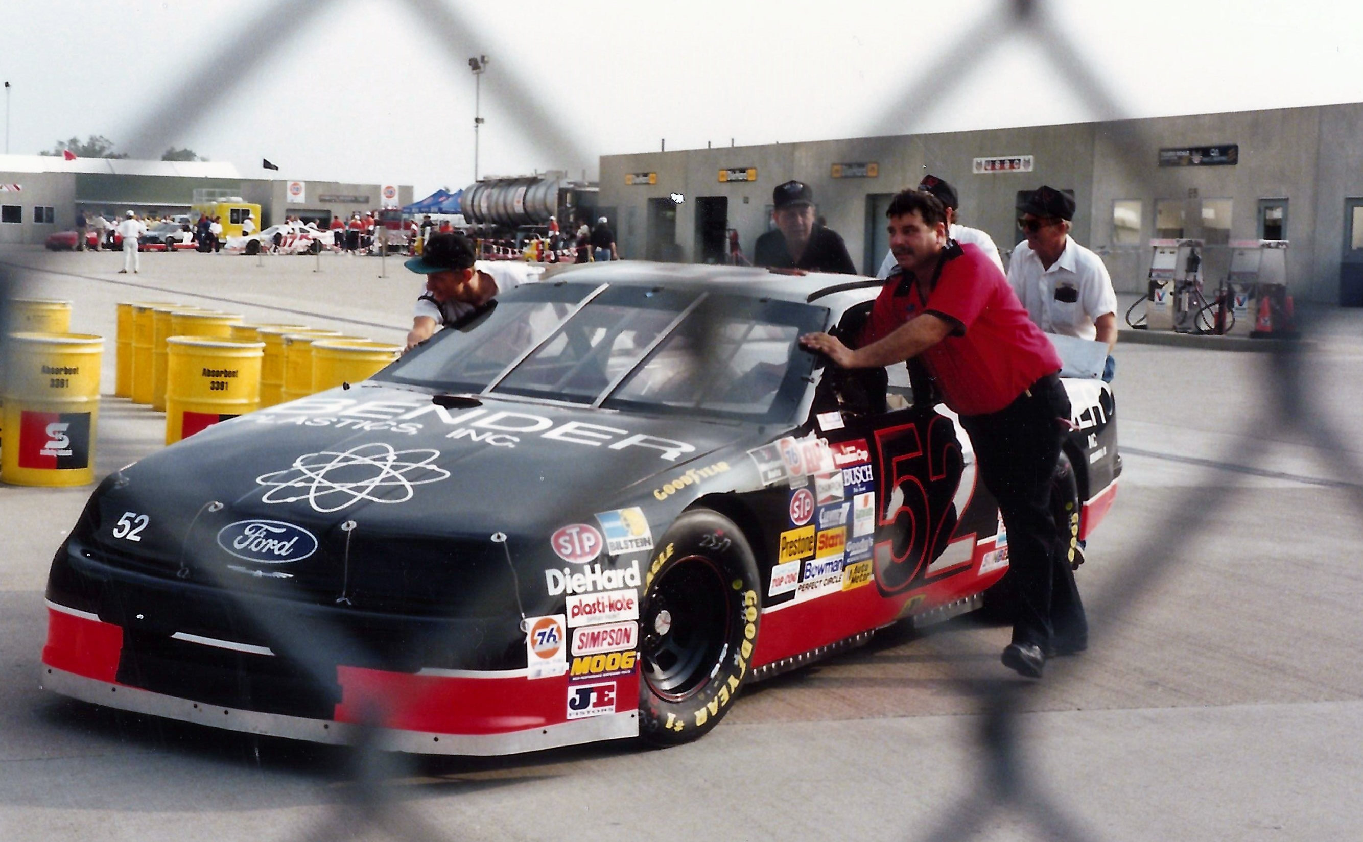 1994 NASCAR Brickyard 400 at the Indianapolis Motor Speedway. The car of #52 Brad Teague in the garage area during practice.